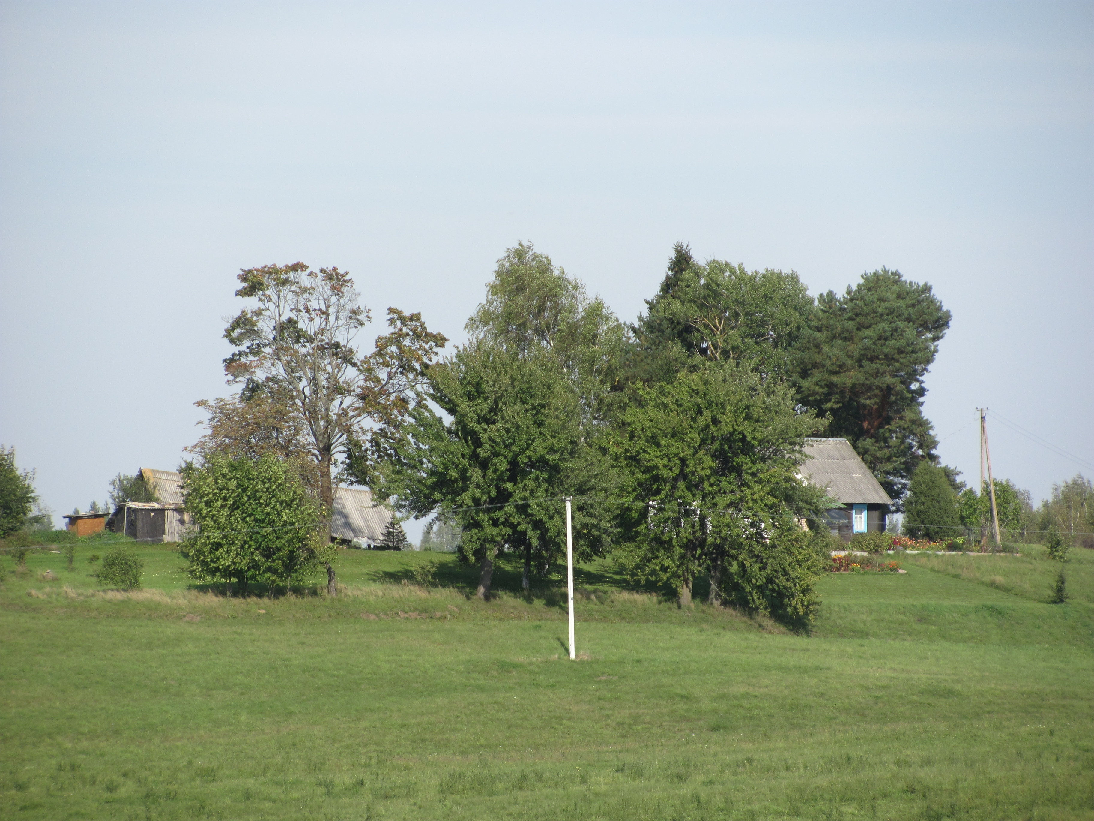 Turmanto sen., Lithuania